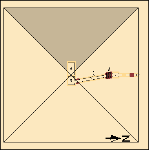 A depiction of the substructure underneath Nyuserre's pyramid. In order: (1) North facing entry; (2) Vestibule; (3) Pink granite portcullises; (4) Passageway; (5) Antechamber; (6) Burial chamber. Based on Borchardt, Ludwig (1907) Das Grabdenkmal des Königs Ne-User-Re, Leipzig: Hinrichs, p. Blatt 19